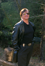 Author David L. Robbins (Oregon) Taken in 2013